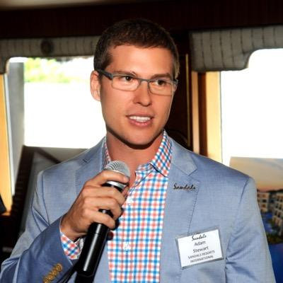 Adam Stewart speaking at a Travel Agent event aboard lady Sandals in New York, 2014.jpg